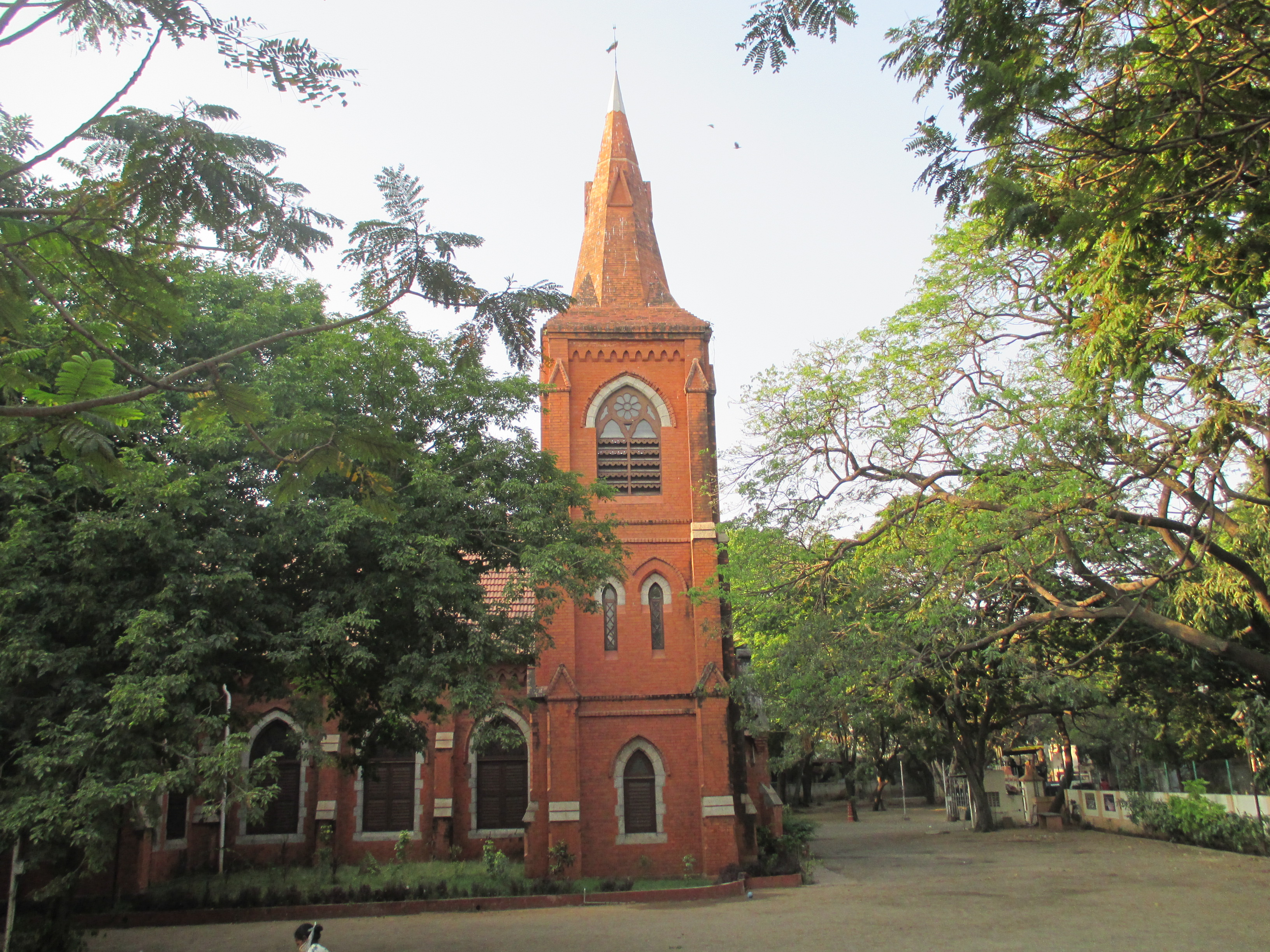 Wesley Church, Egmore